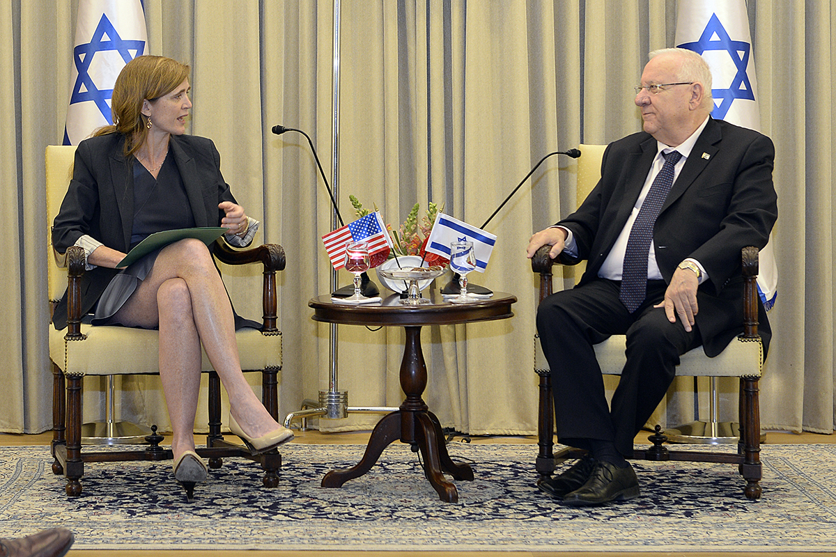 "From the Real UN to the Model UN" - U.S. Ambassador to the UN Samantha Power's visit to Israel.